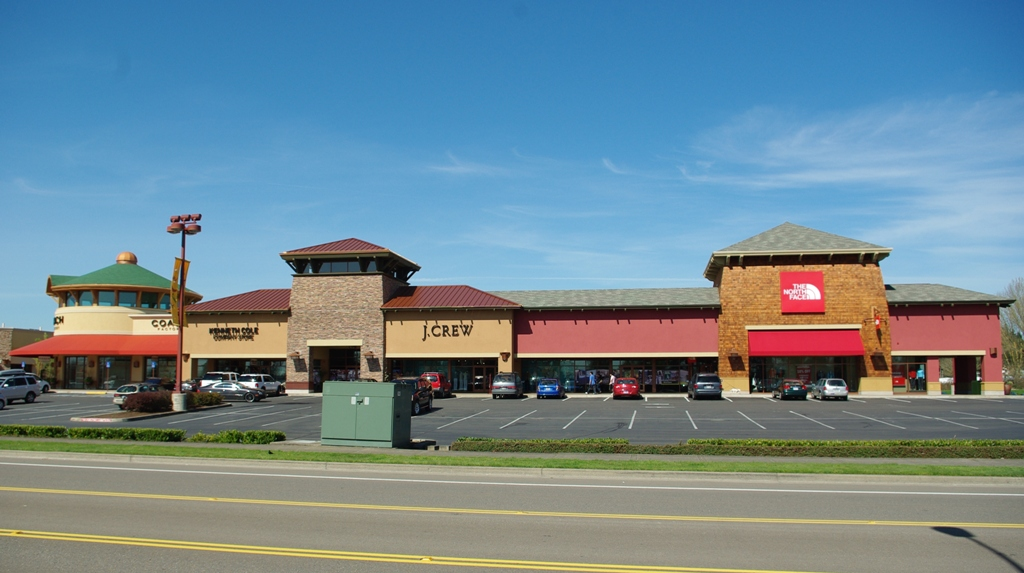 Woodburn Company Stores in Oregon. Addition built 2008-09